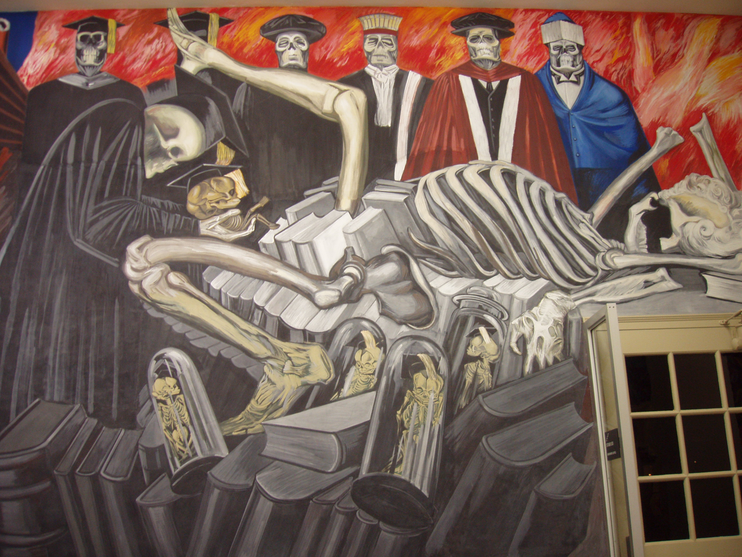 Detail of mural by José Clemente Orozco at Baker Library, Dartmouth College, Hanover, New Hampshire. Photograph taken by me, October 2005. Category:Dartmouth College.